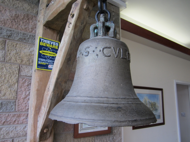 Bell in Culcheth Methodist Church, Lancashire, England. It was cast for Culcheth Hall Chapel and has been used by three denominations of Christian churches. It is marked with Smartwater for unique forensic tracing.